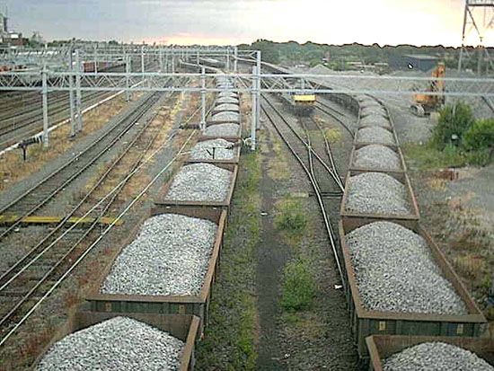 A freight train awaits unloading at Rugby in England